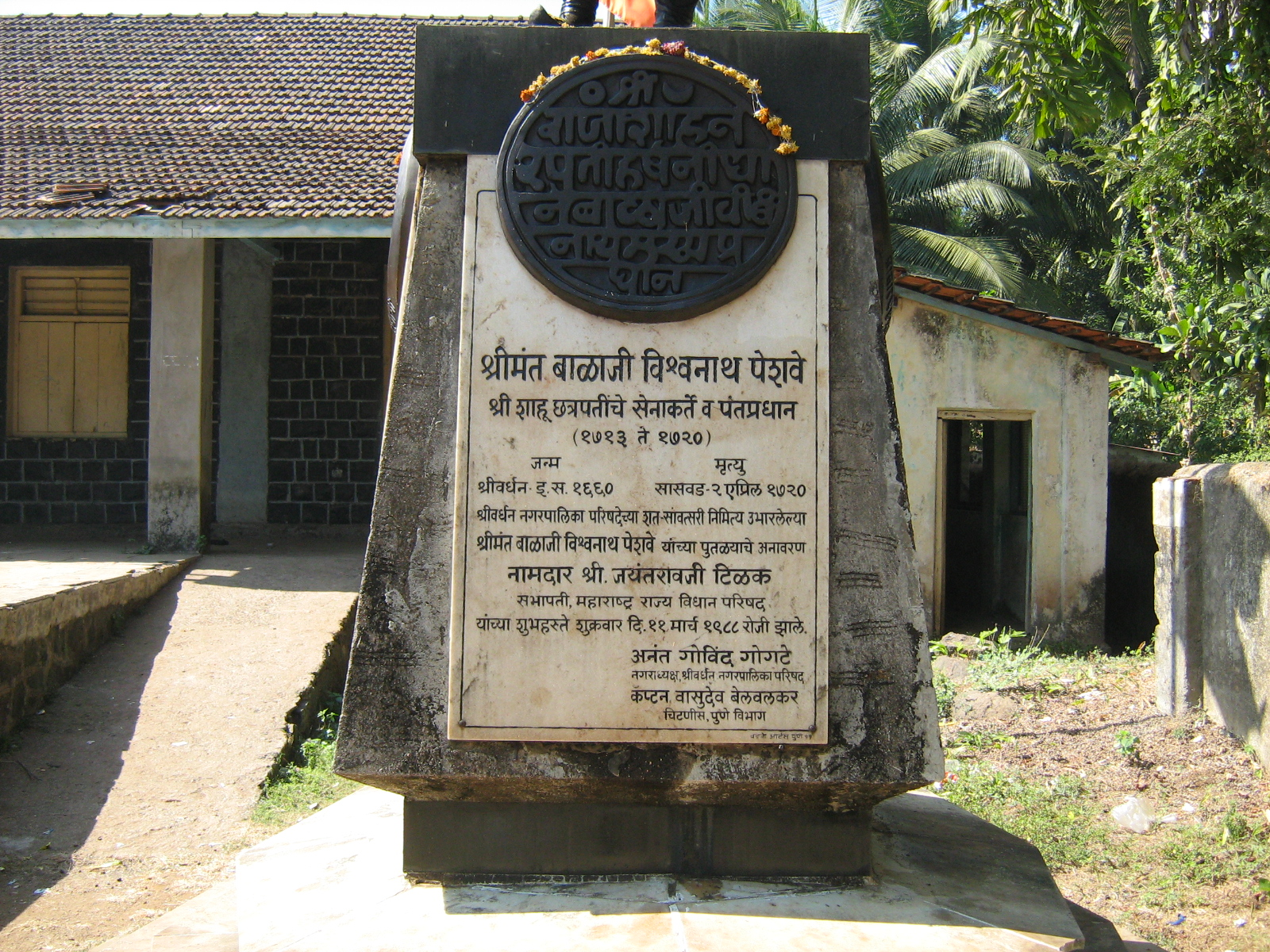 The Peshwa Smarak at Shrivardhan